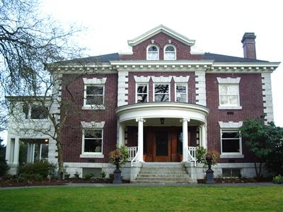 Side Exterior view of the Ames House, Seattle.